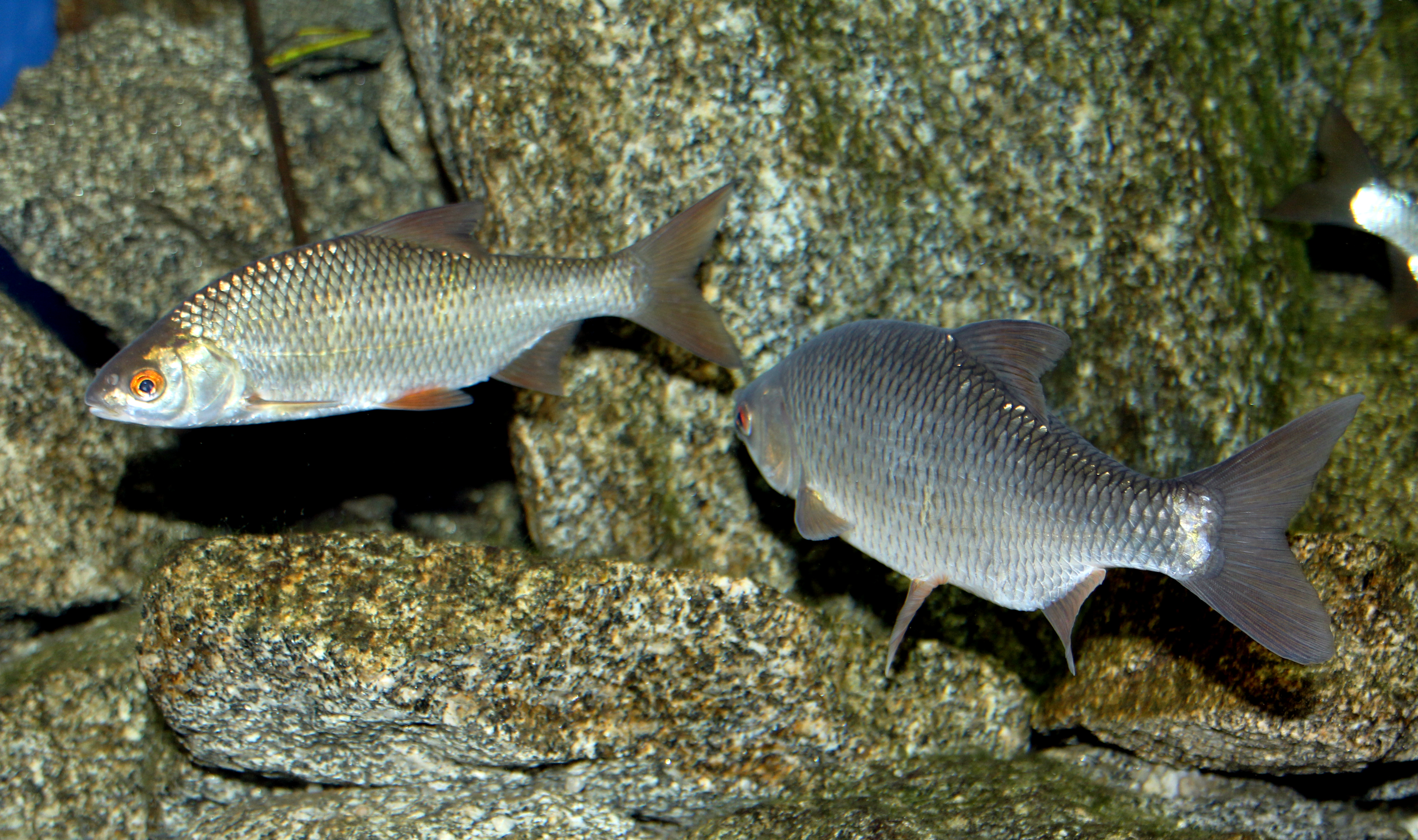 Common roach on exhibition Subaqueous Vltava, Prague 2011, Czech Republic